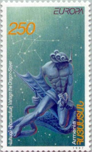 Stamp of Armenian pagan god, Vahagn Vishapaqagh, superimposed on Vahagn constellation (Hercules constellation)